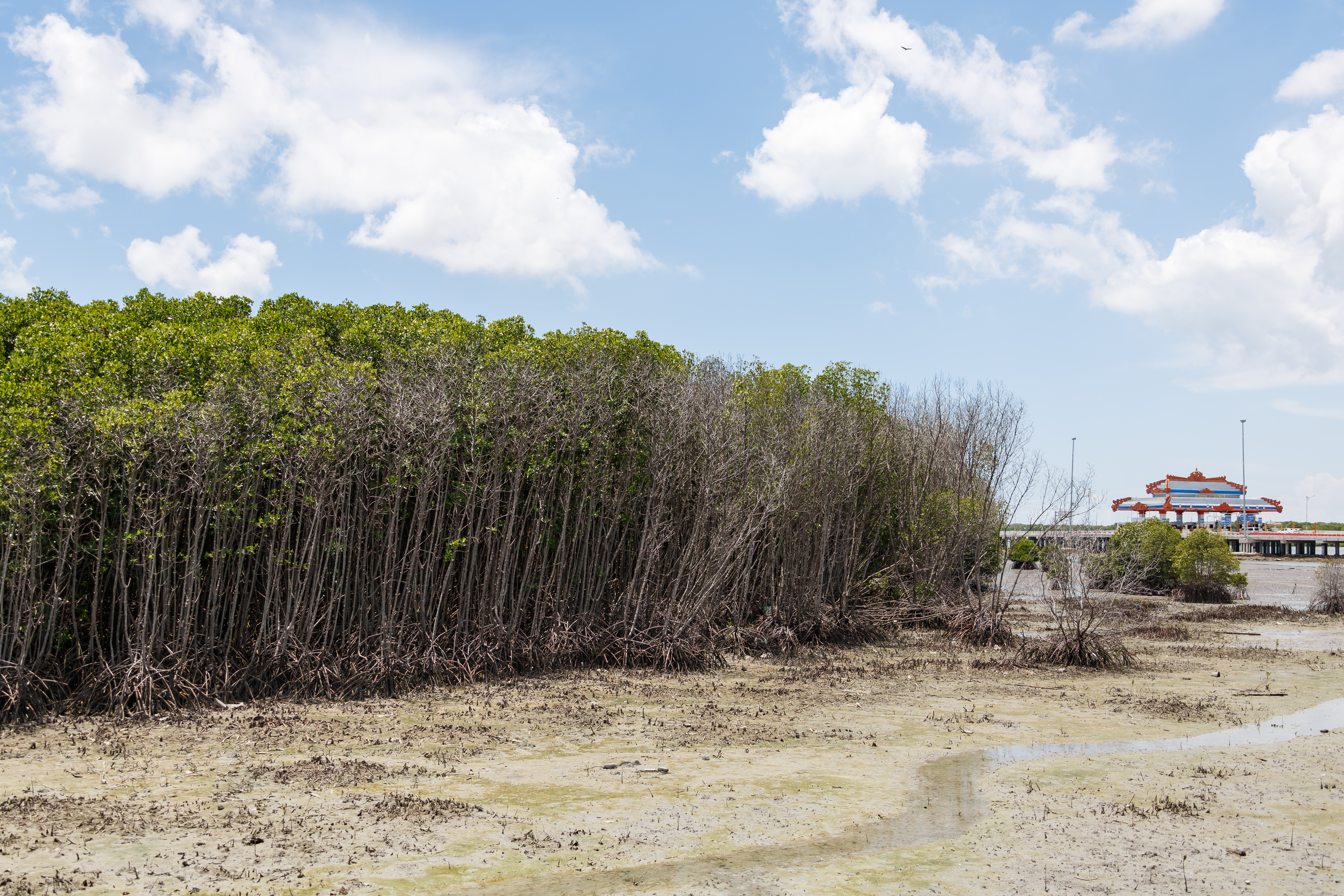 Benoa, Bali, Indonesia: Mangrove forest at Benoa.